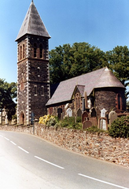 Bride Parish Church, Isle of Man. The Kirk Bride Church is dedicated to St. Bridget. The original Church dated from around 1200. It was rebuilt and consecrated in 1876 by Bishop Selwyn. The Architect was Joseph Henry Christian. The Adam and Eve stone, which once formed part of the Chancel floor, is now on an inside wall. This is just one of six in the British Isles.